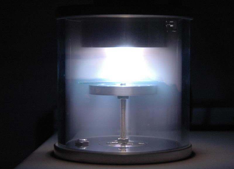 Plasma discharge visible inside a sputter chamber being used to deposit gold atoms onto an electron microscope sample by physical vapour deposition (PVD). The sputter chamber is 150 mm in diameter, and the sputter gas consists of air at low pressure.